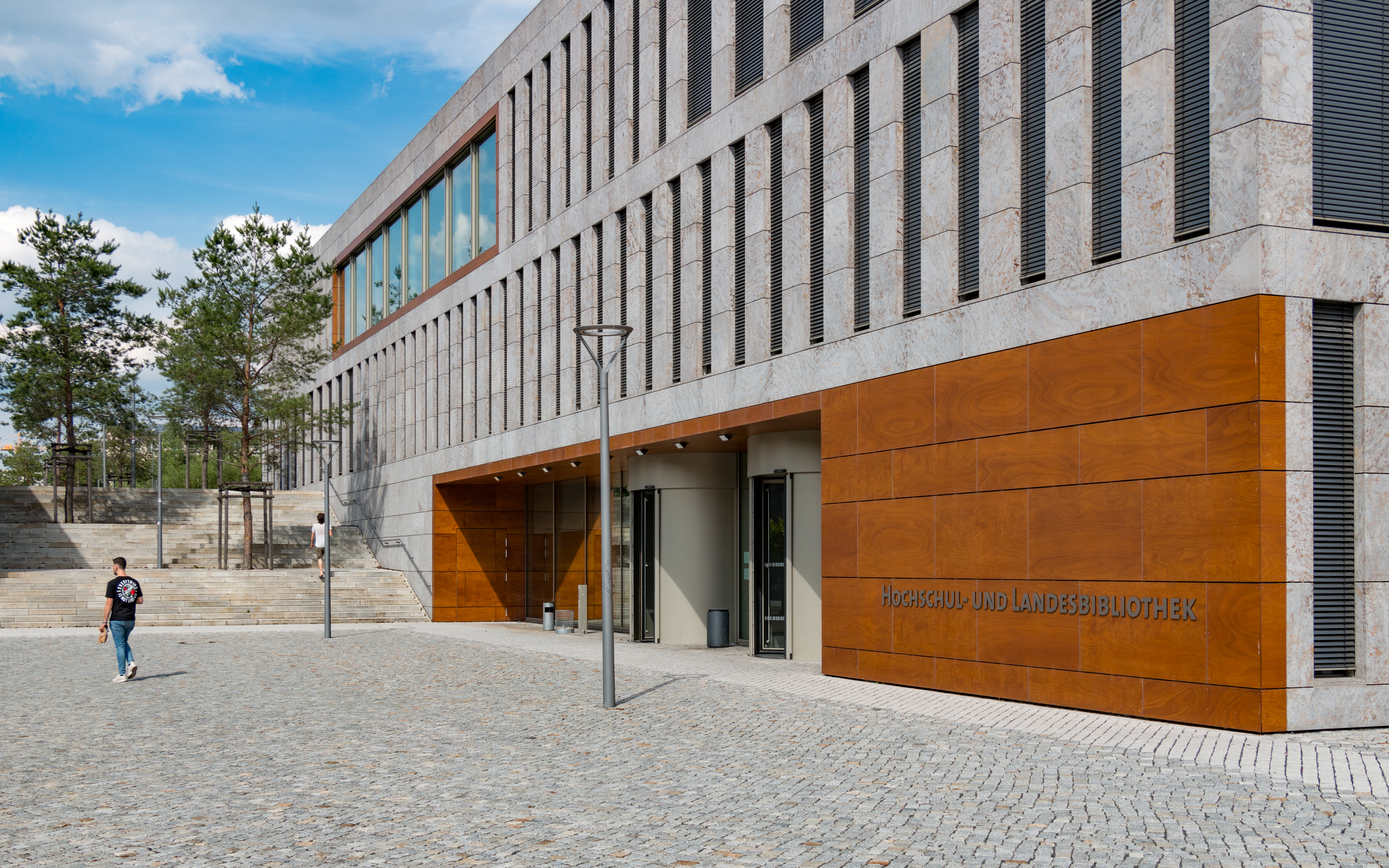 Libary on the campus of the Fulda University of Applied Sciences